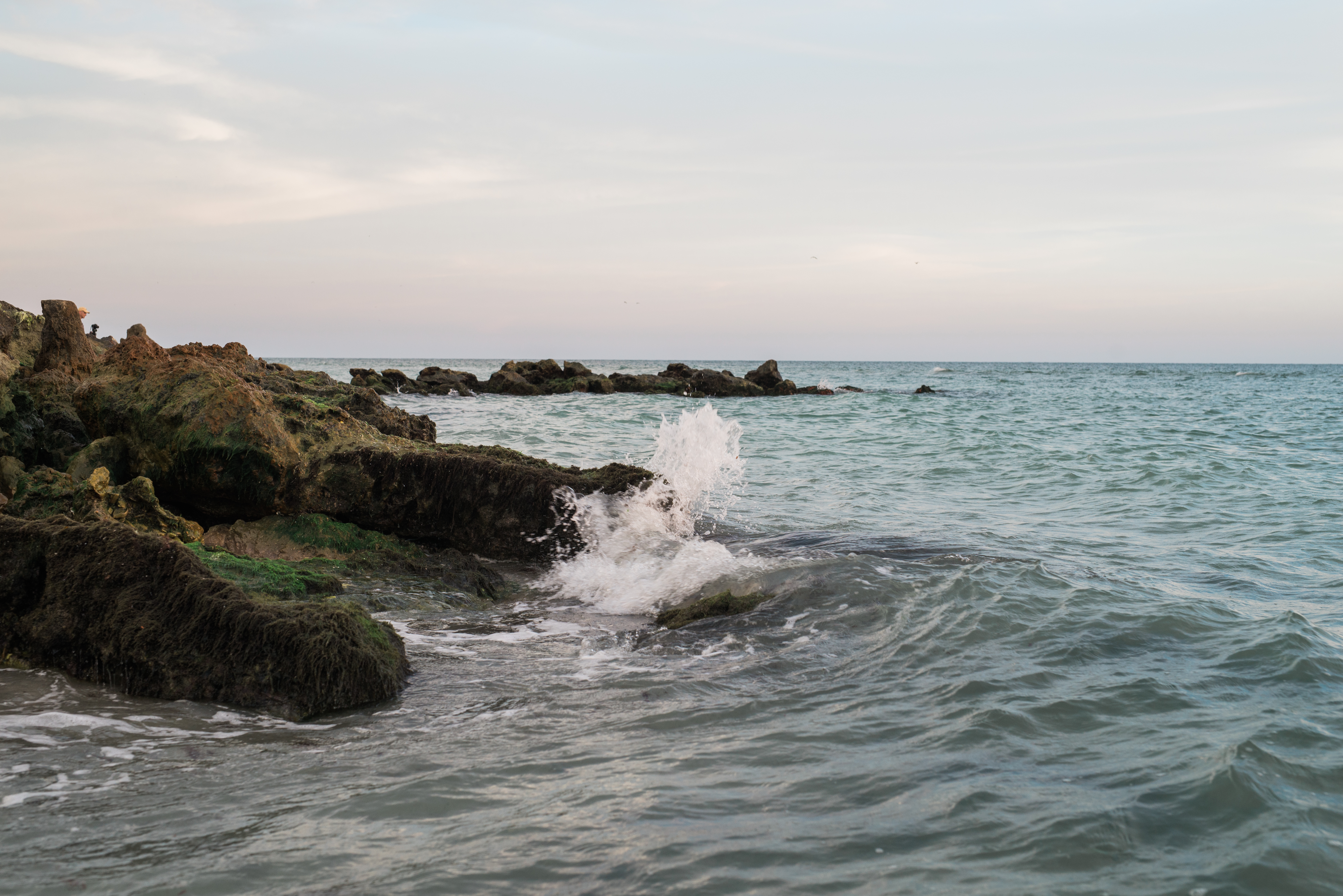 Caspersen Beach Park has hiking trails (with dangerous snakes) and a rocky beach. Looking for shark teeth is popular, but not allowed. It's located at 4100 Harbor Dr, Venice, Florida.